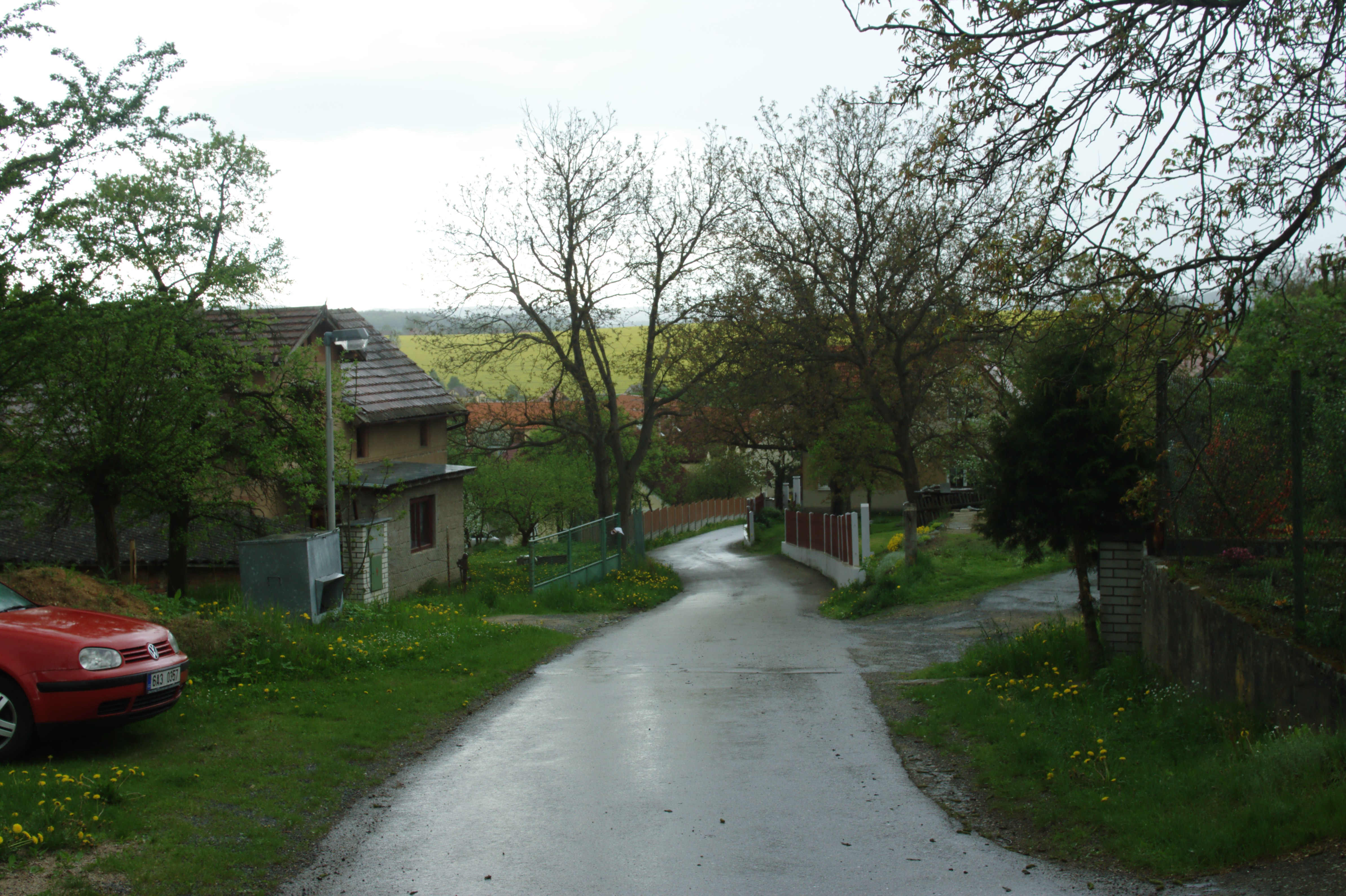 Mačovice village near the town of Vranov, Benešov District, CZ